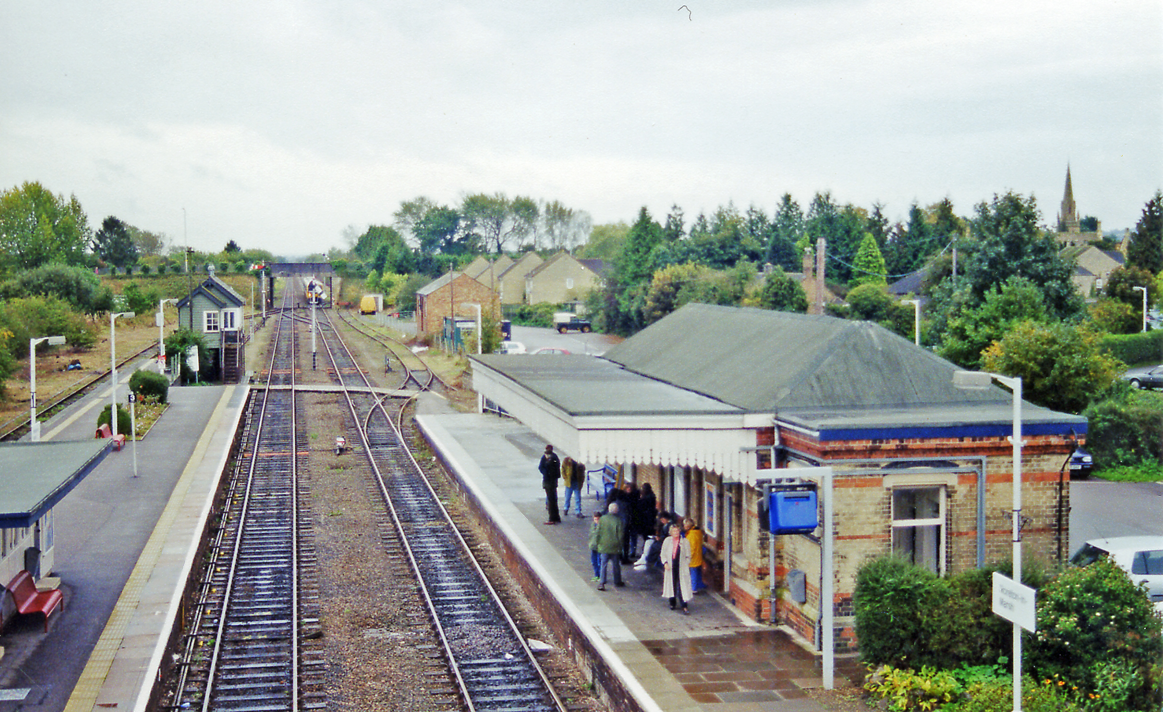 Moreton-in-Marsh station, 2000. View SE, towards Oxford, Didcot, Reading and London etc.: ex-GWR Oxford, Worcester & Wolverhampton section. This is a main line, which however was reduced largely to single track c. 1970 but restored to double-track by 2011. The bay platform on the Up side was used by the branch trains from Shipston-on-Stour, which ceased from 8/7/29 (goods 2/5/60) and joined north of the station.